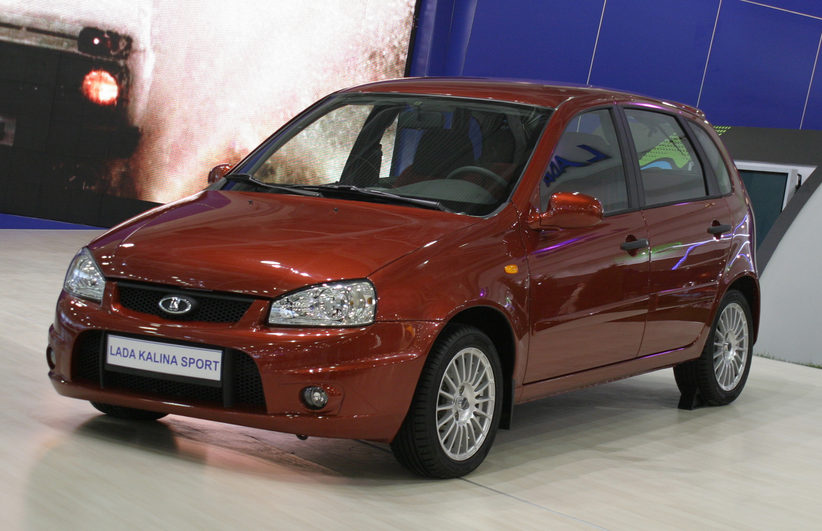 Lada Kalina Sport 1.4 at Lada booth, Moscow international auto show.